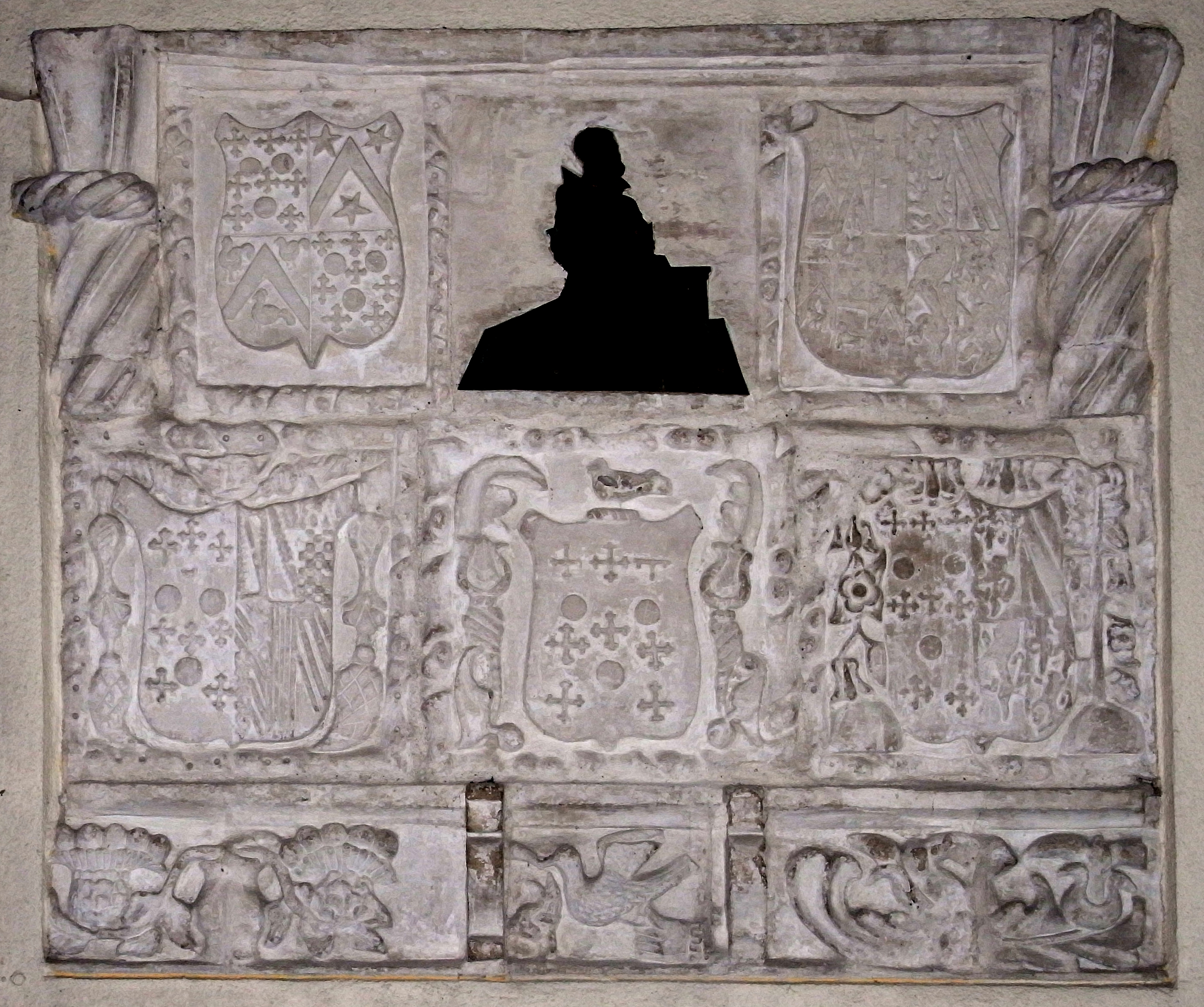 16th century mural monument to (James?) Coffin, Lord of the manor of Monkleigh, Devon. Monkleigh Church, high up on north wall of chancel. Monumental brass depicting a bearded knight kneeling in prayer, surrounded by heraldic escutcheons depicting the arms of Coffin: Azure, three bezants between nine crosses crosslet or